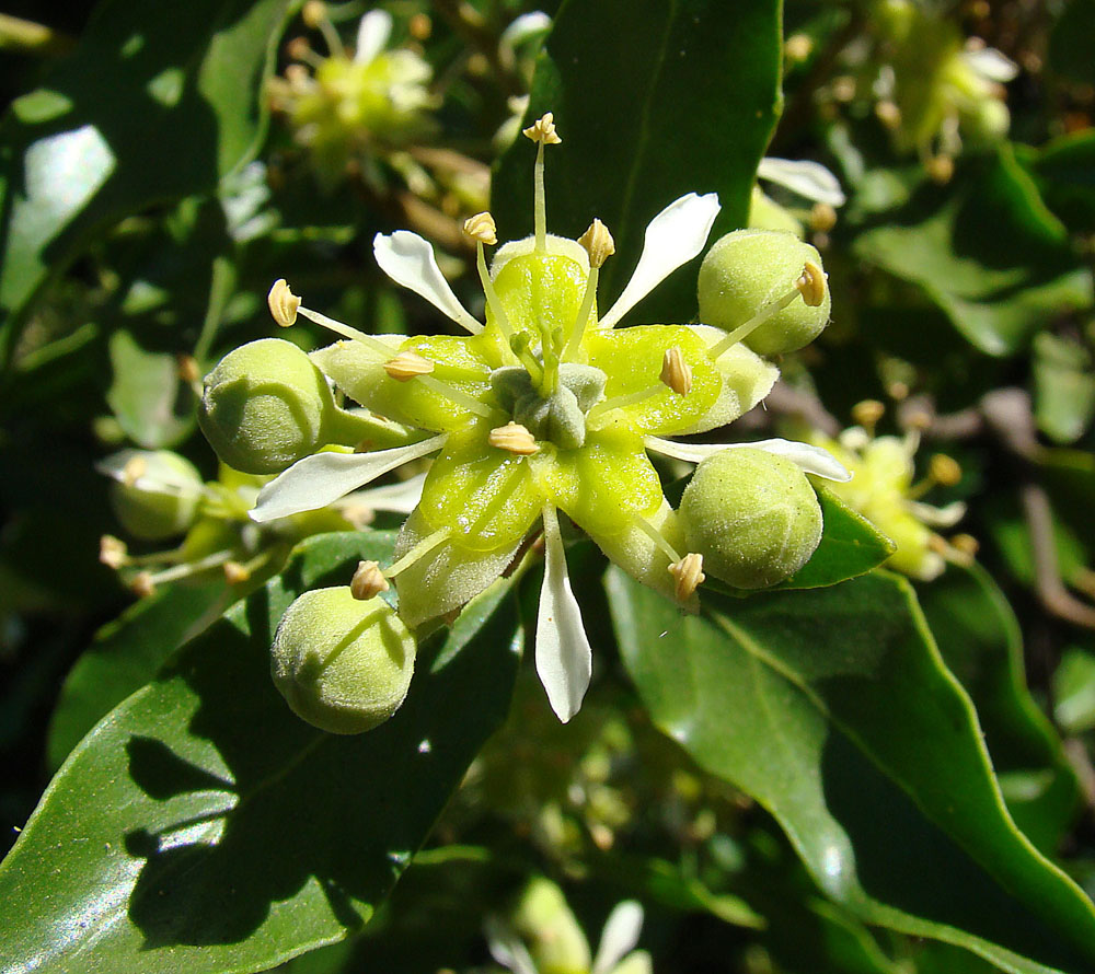 The flower of a widely useful Chilean tree known of Soapbark and locally as Quillay. In context at